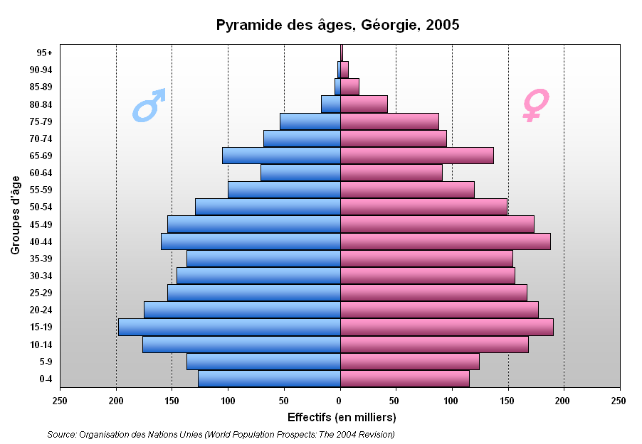 Georgia Population pyramid, 2005